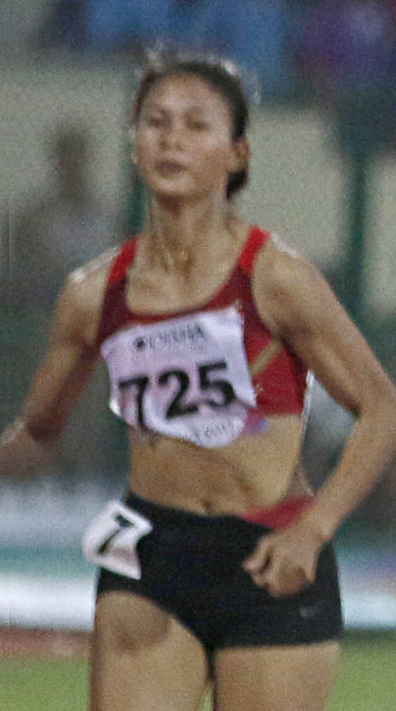 Dutee Chand won the 100m bronze medal in 22nd Asian Athletics Championships in Bhubaneswar. Here a semi final. 3 Dutee Chand 257 INDIA ___ _____________ 4 Siti Fatima 560 MALAYSIA ___ _____________ 5 Olga Safronova 472 KAZAKHSTAN ___ _____________ 6 Hu Chia-Chen 205 CHINESE TAIPEI ___ _____________ 7 Tassaporn Wannakit 725 THAILAND ___ _____________ 8 Afa Ismail 580 MALDIVES